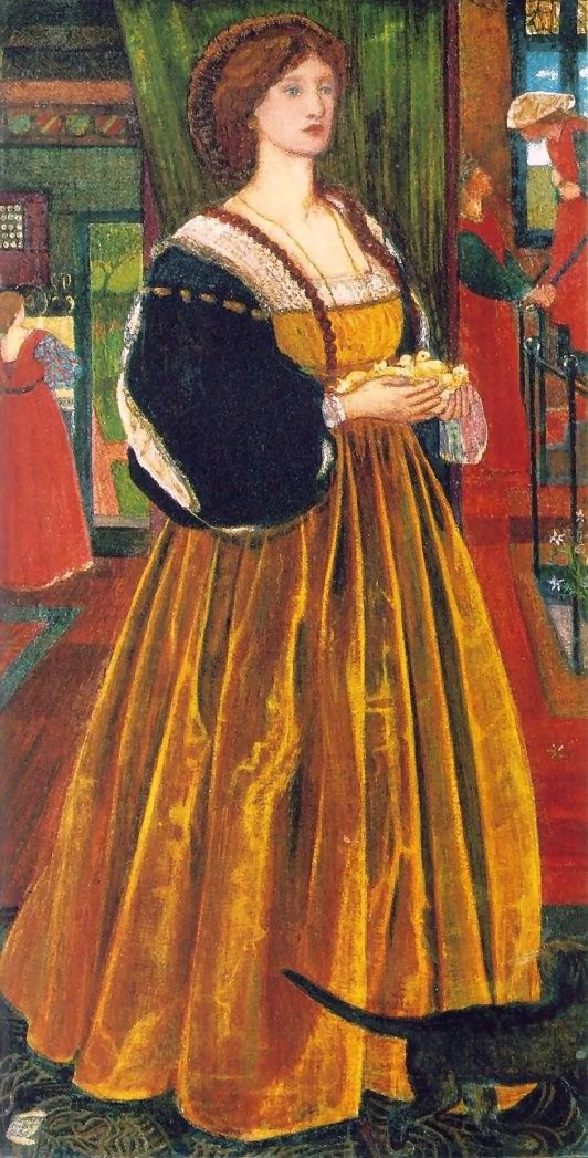 Clara von Bork